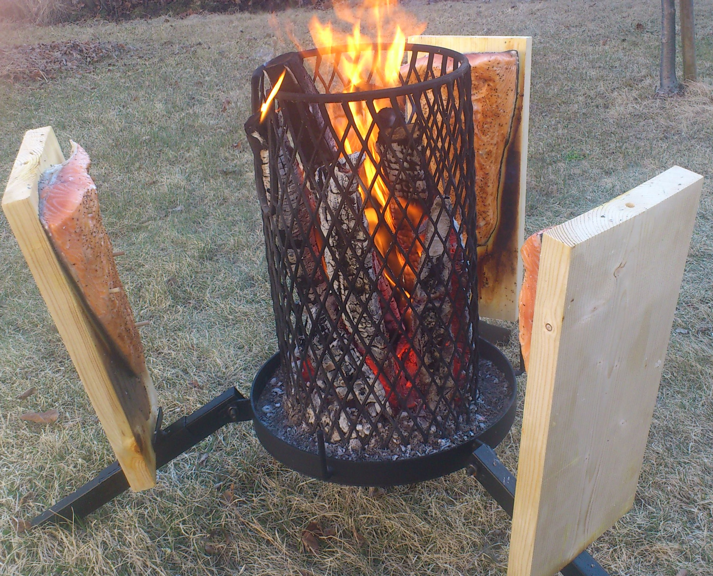 Blazing salmon with an equipment (Loimu) designed for that purpose.